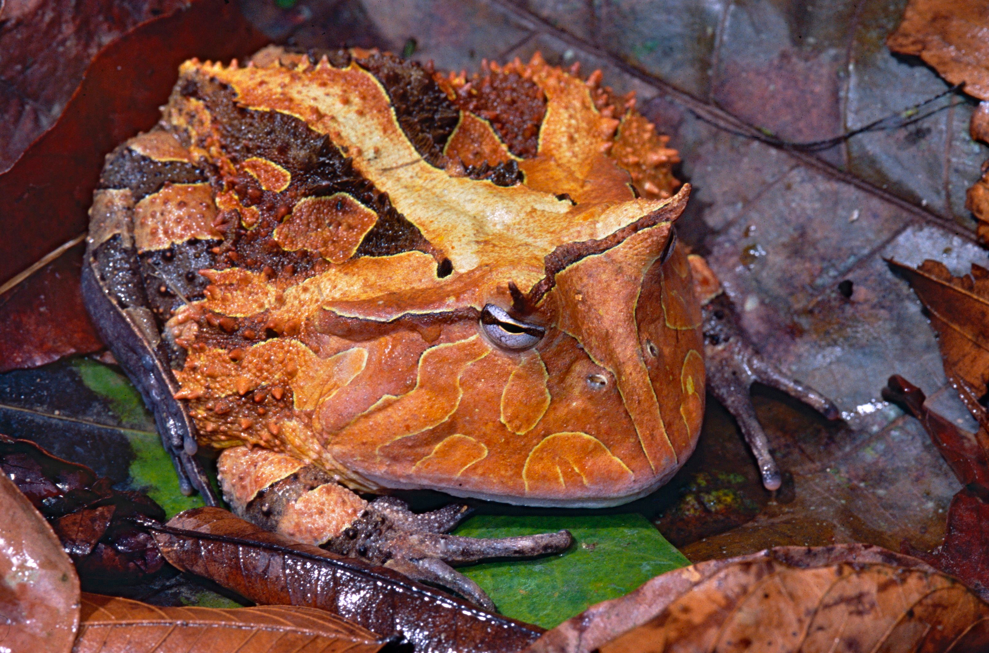 Cacao, Guyane, FRANCE Scanned Slide from 2001